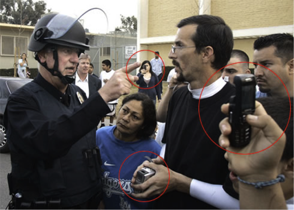 Police being taped by civilians